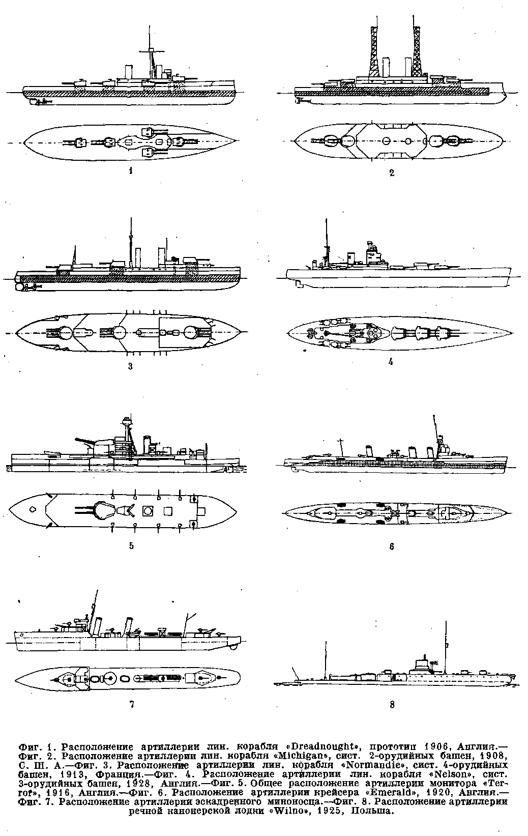 Artillery disposition on naval ships